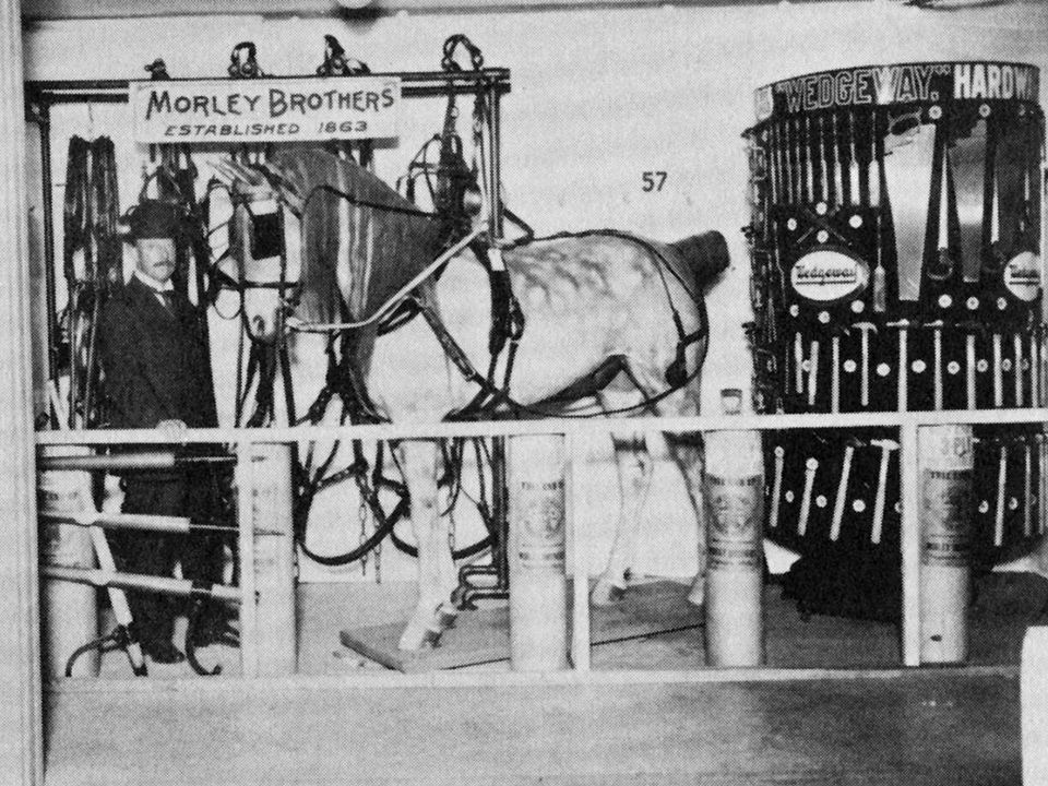 Morley Brothers window display showcasing horse and carriage supplies, 1915. From the Morley Historical Collection